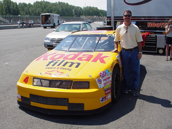 Retired NASCAR driver Ernie Irvan poses with one of his former race cars, a Kodak-sponsored 1992 Chevrolet Lumina, at a 2002 HSCRS event at Portland International Raceway. Photo by Don Falloon, HSCRS.